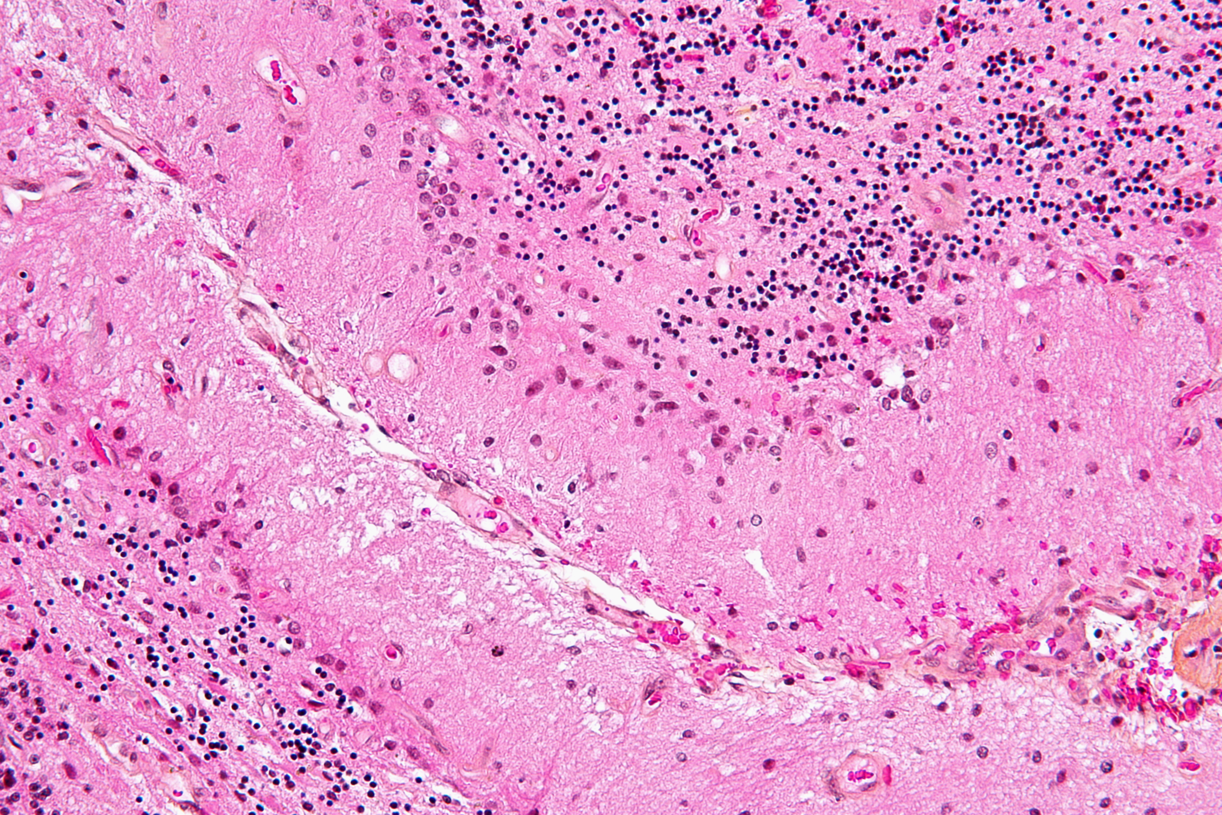 High magnification micrograph of cerebellum with Bergmann gliosis. H&E stain. Bergmann gliosis is hyperplasia of Bergmann glia due to Purkinje cell death, as may occur in a hypoxic-ischemic insult or peritumoral compression. In the case above, the cerebellum was compressed by a tumour (hemangioblastoma). Related images Intermed. mag.